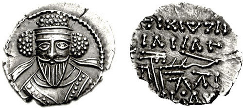 Coin of Vologases V, a Parthian king.